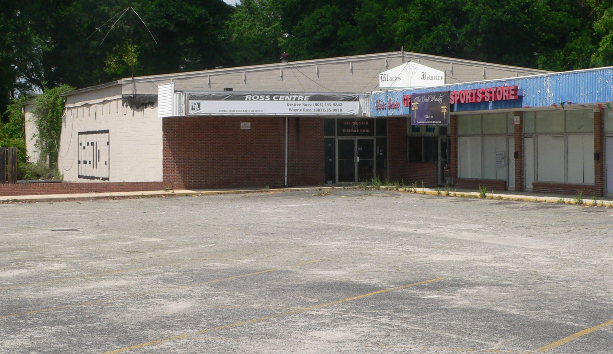 All-Star Triangle Bowling Alley, on northwest side of Russell Street between Centre and Lowman Streets in Orangeburg, South Carolina; seen from the parking lot to the south.